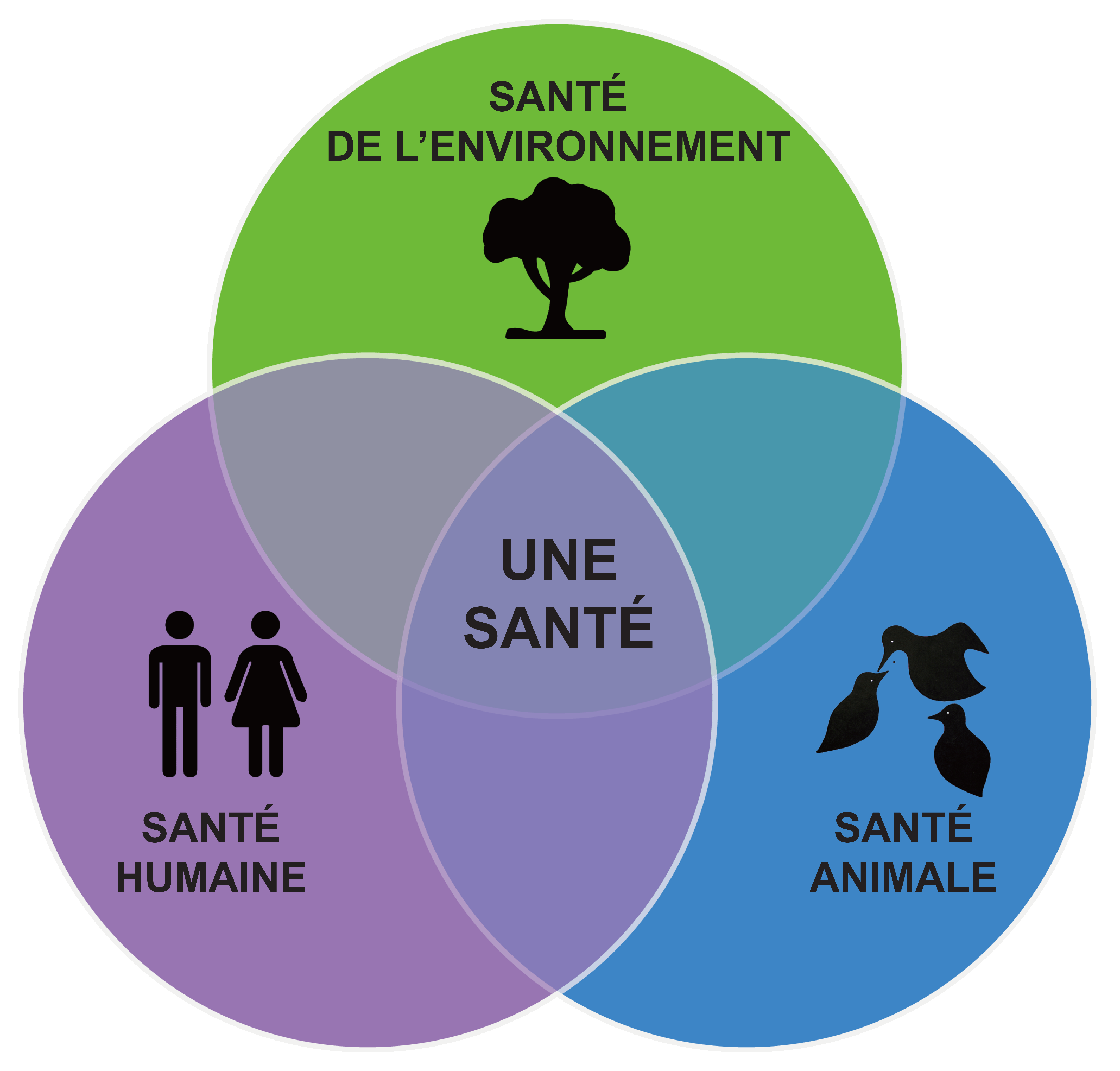 One Health Triad - French version - made from English version